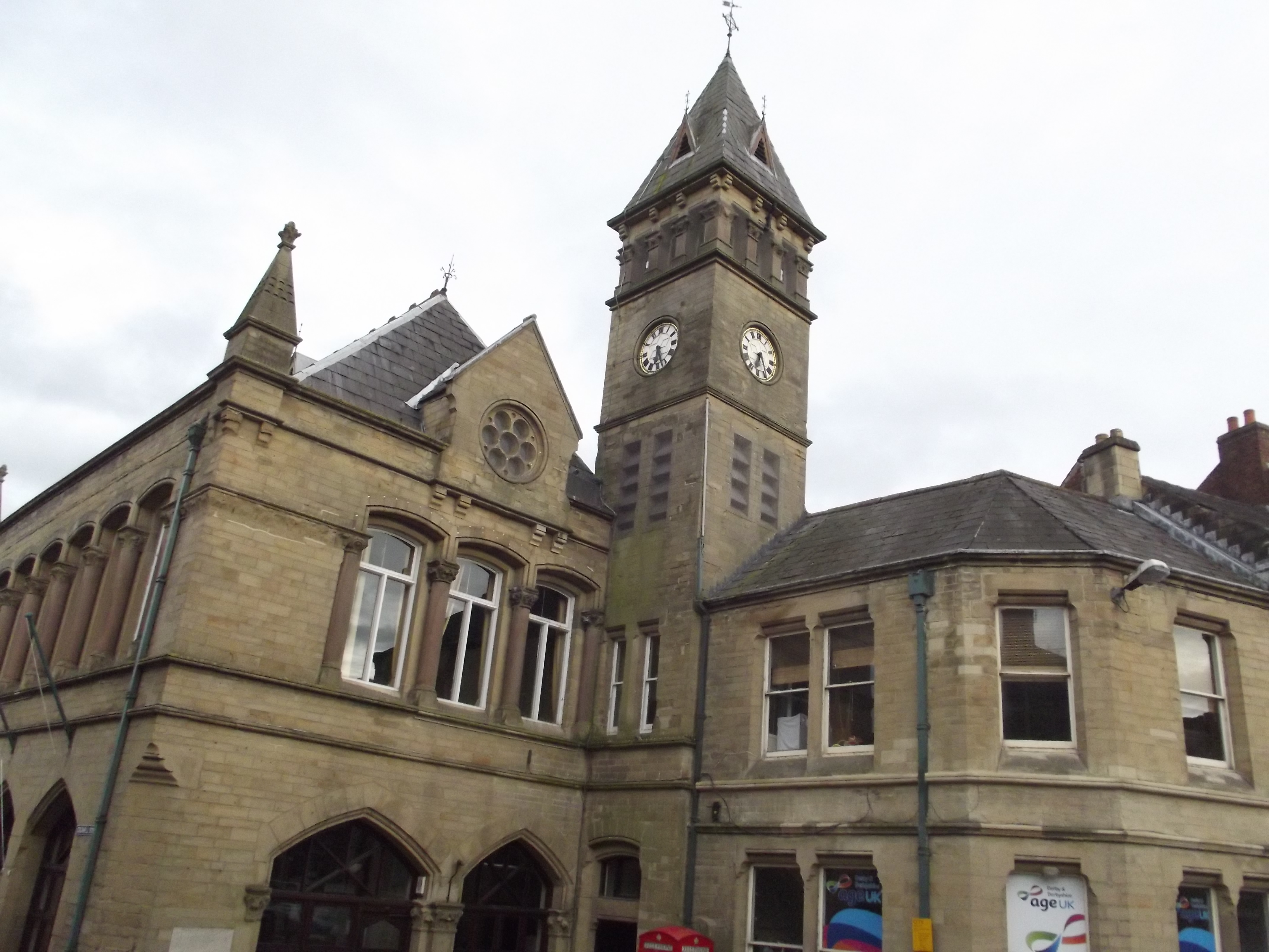 Wirksworth Town Hall - built from 1871. The building is now a library.